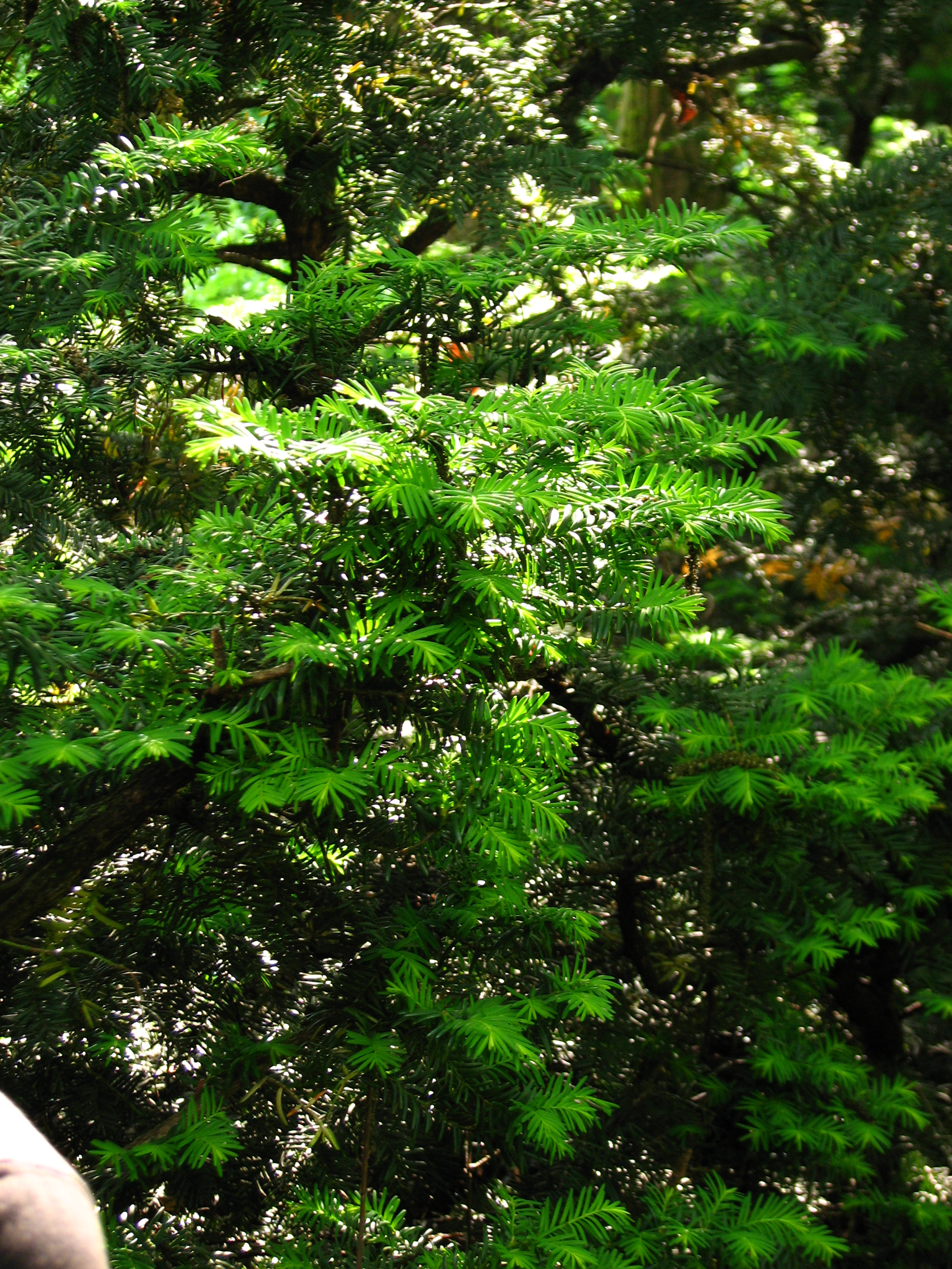 Taxus cuspidata in the Botanical Garden of Moscow State University (the Alpinarium).